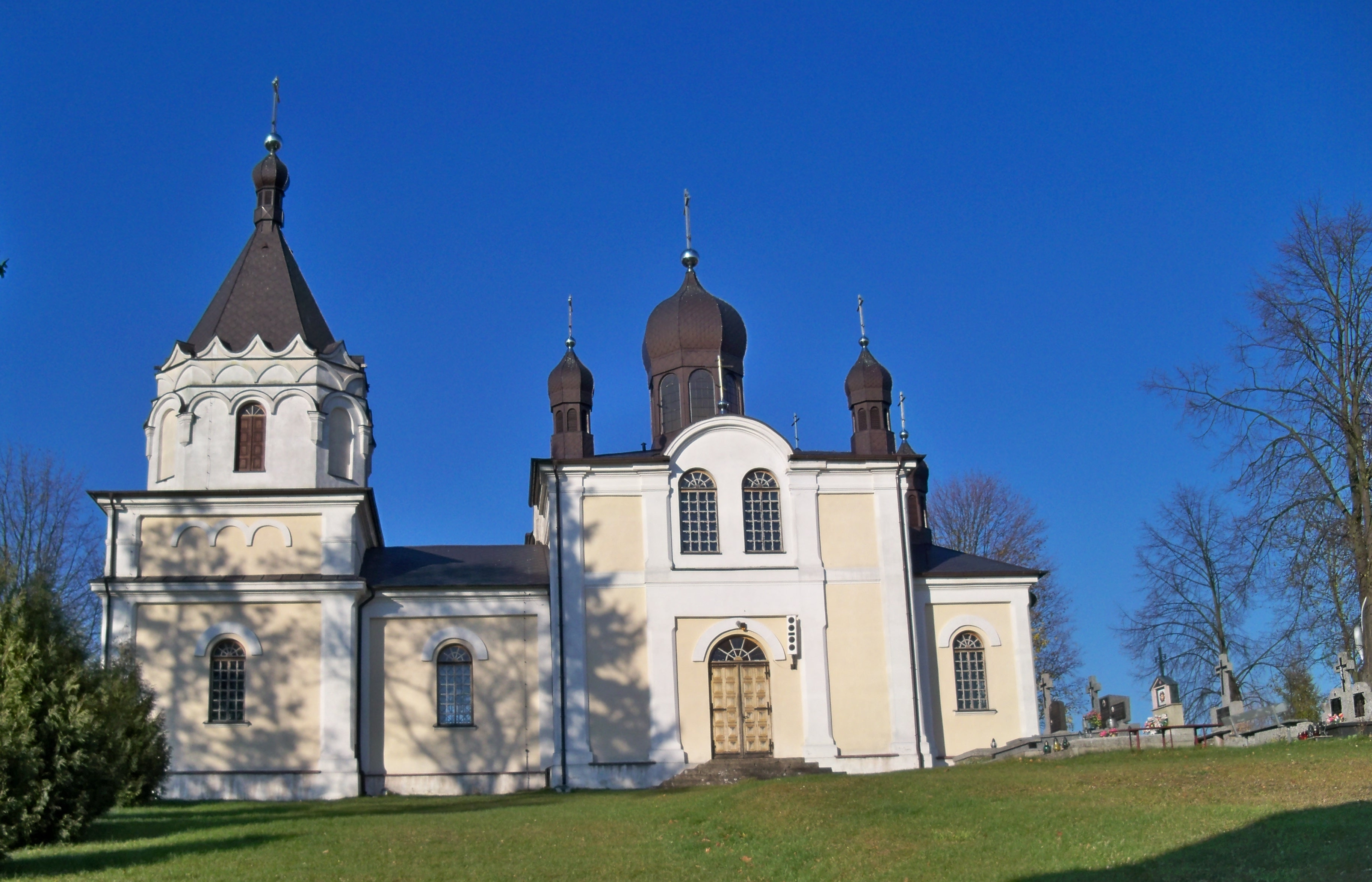 Orthodox church of Peter and Paul in Siemiatycze (Poland).